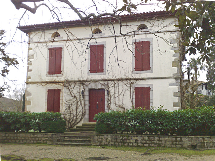 Villa Itzala, once house of Ernest Fourneau. Azkaine / Ascain, Lapurdi / Labourd, Basque Country.